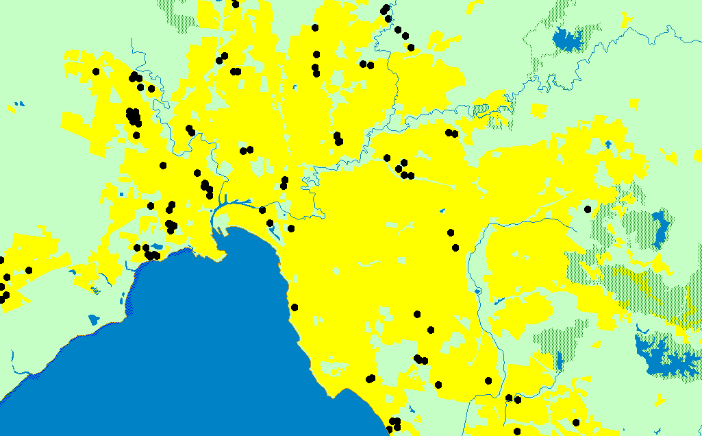 Croatia-born residents in Melbourne, 2006 (one dot equals 100 such residents in a collection district)